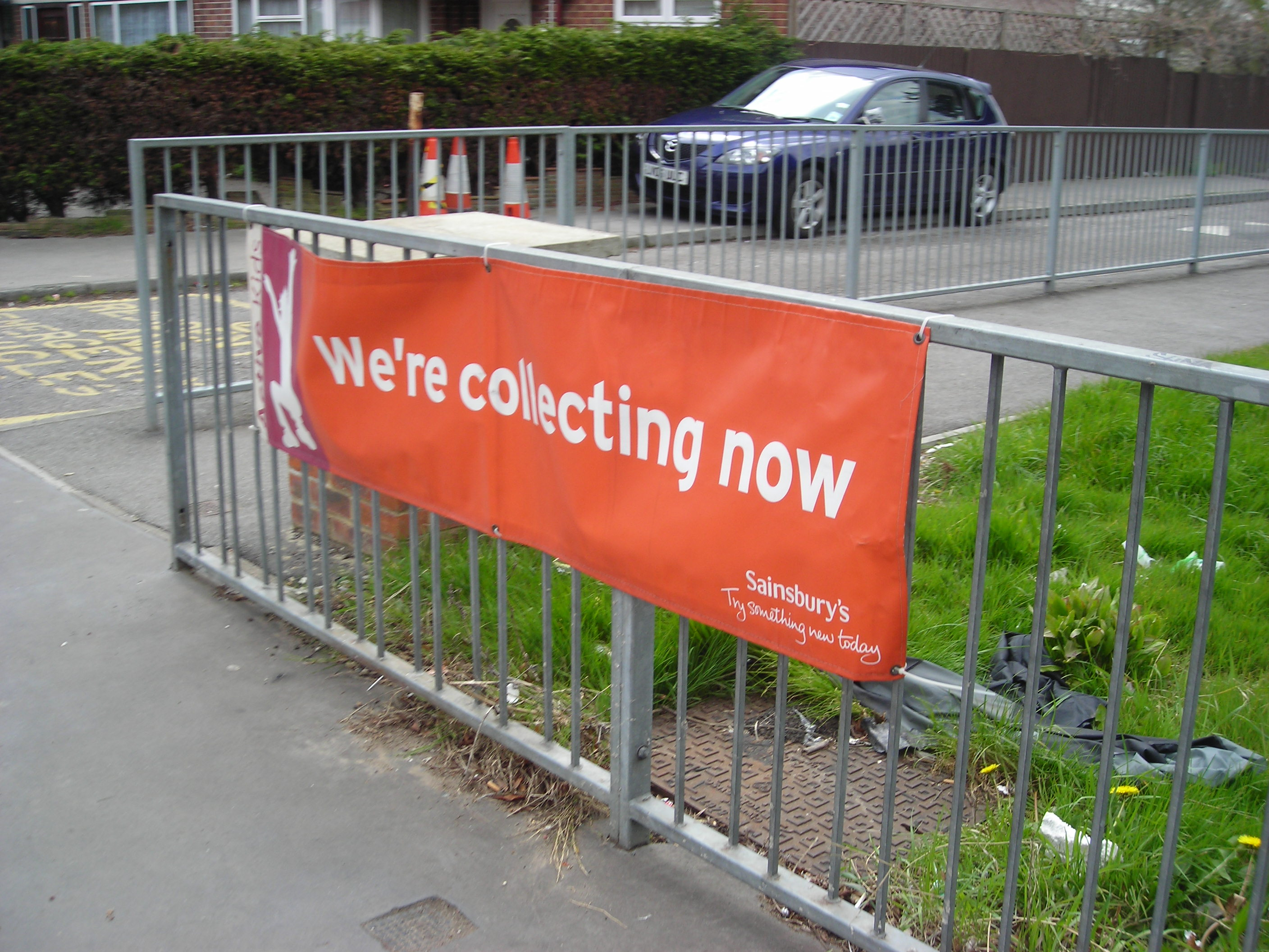 Sainsbury's Active Kids banner at a school in South Norwood